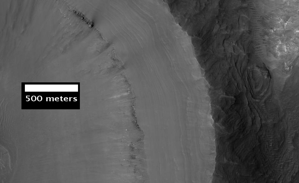 Saheki Crater closeup of layers, as seen by hirise. Location is 21.8 S and 73 E.